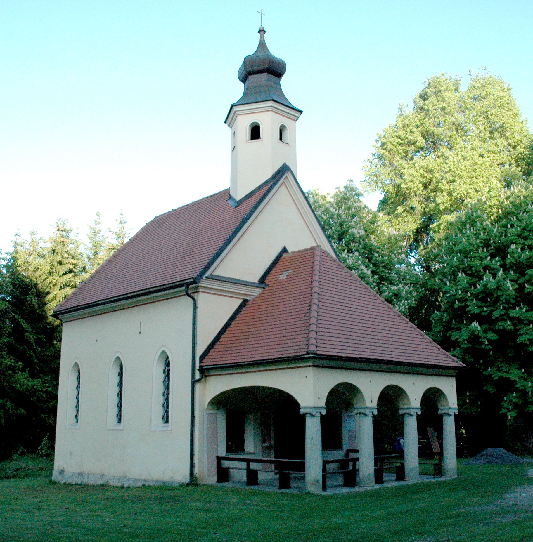 Pilgrimage church Mary Seven Pains at Wolschart, municipality Sankt Georgen am Laengsee, district Saint Veit an der Glan, Carinthia, Austria